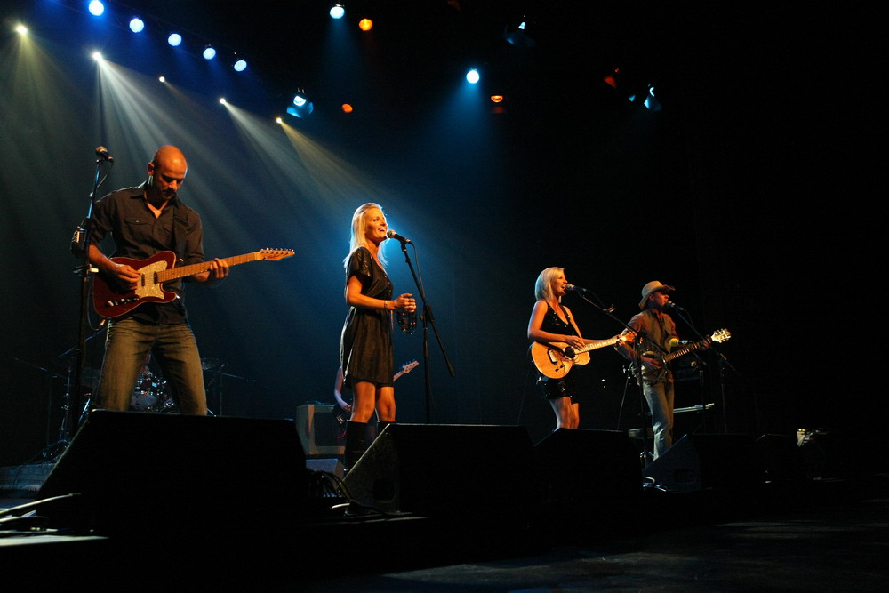 Jetty Road playing the Capitol Theatre at the 2010 Tamworth Country Music Festival